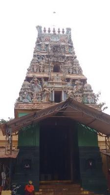 Thanjavurpookkarastreetmurugantemple தஞ்சாவூர் பூக்காரத்தெரு முருகன் கோயில்